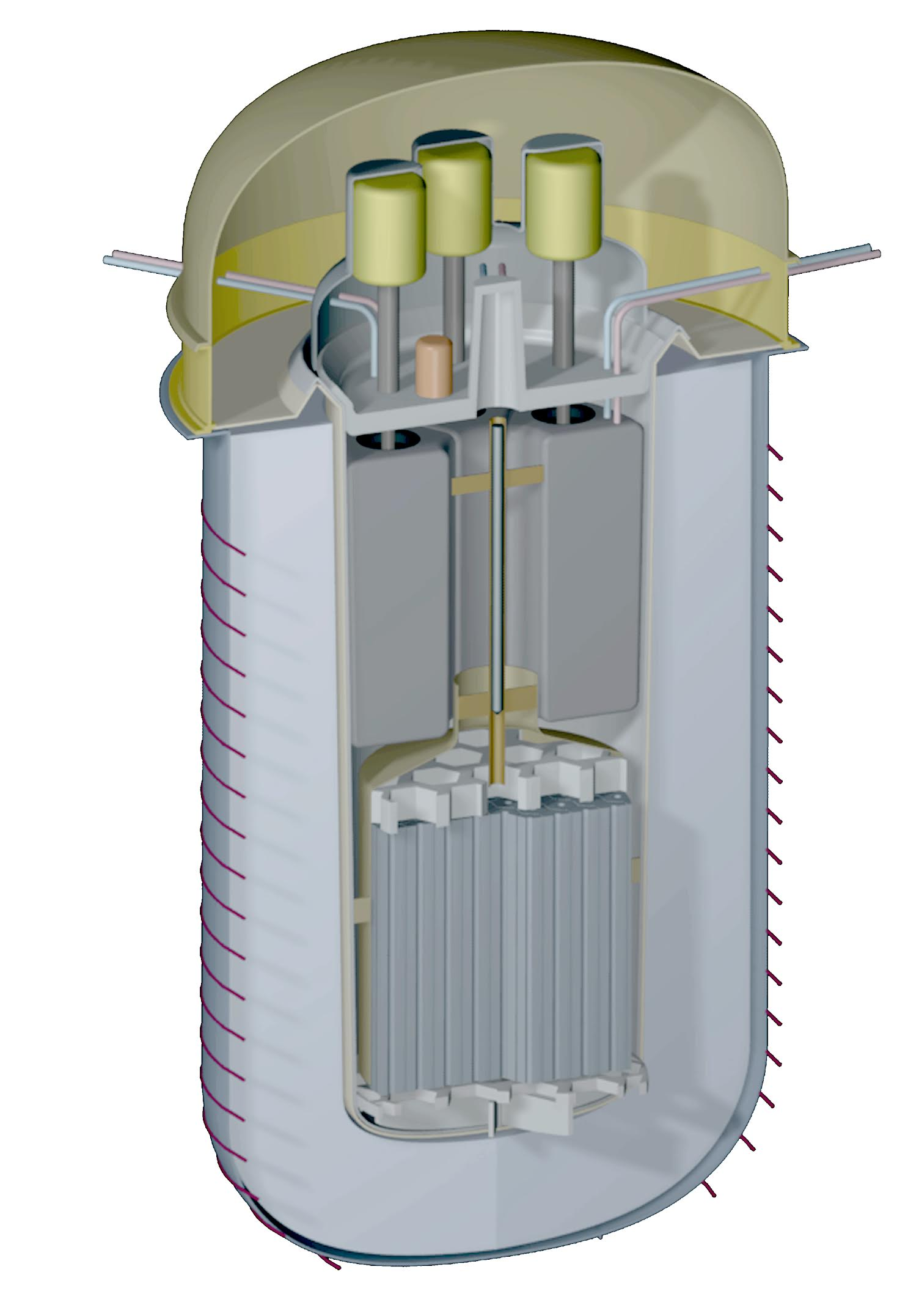 Cut-away view of the IMSR core unit, showing the core unit placed inside a surrounding solid buffer salt tank, itself sitting in a below grade silo.